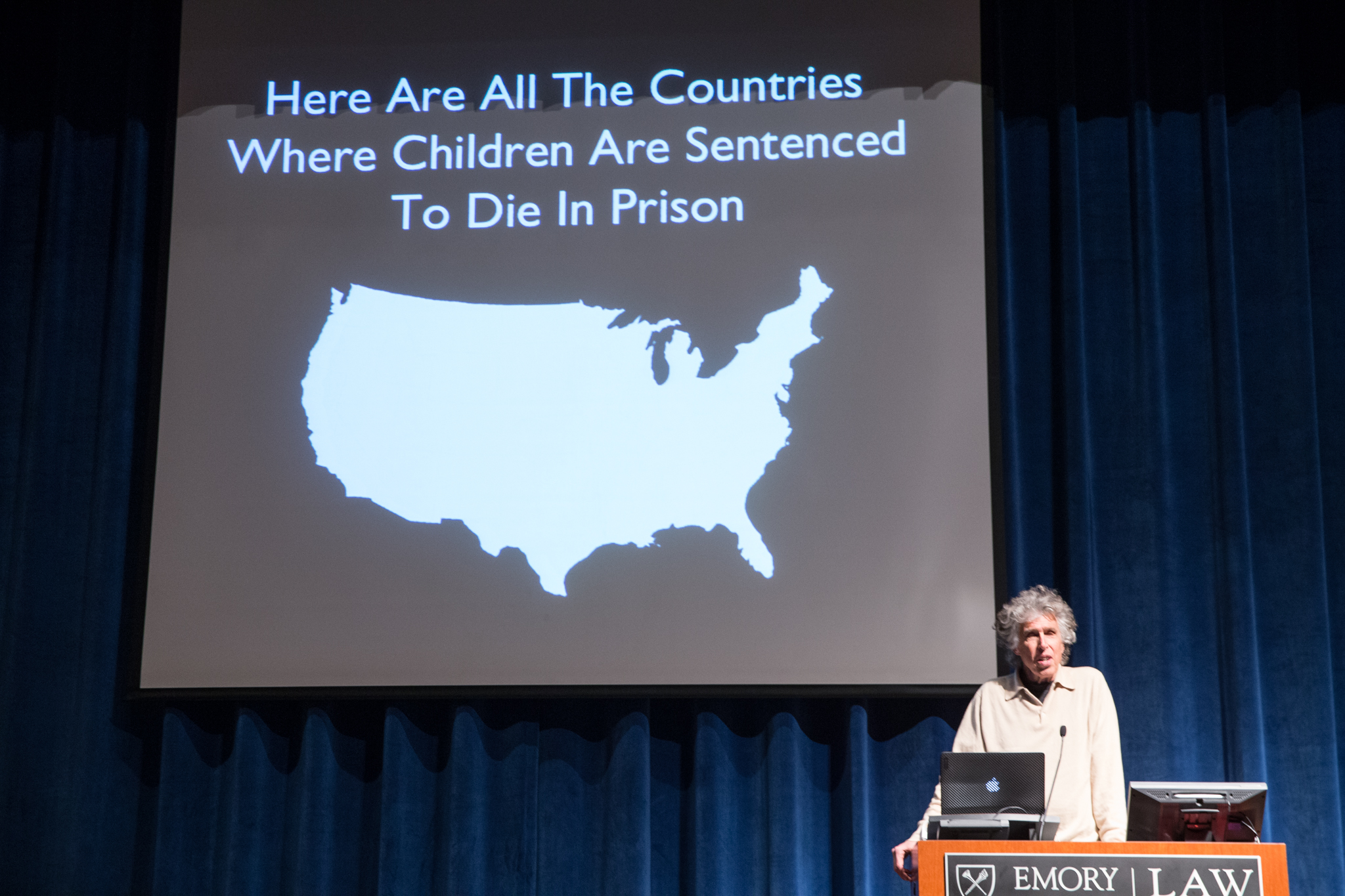 Photographer Richard Ross at Emory University 2/17/2014